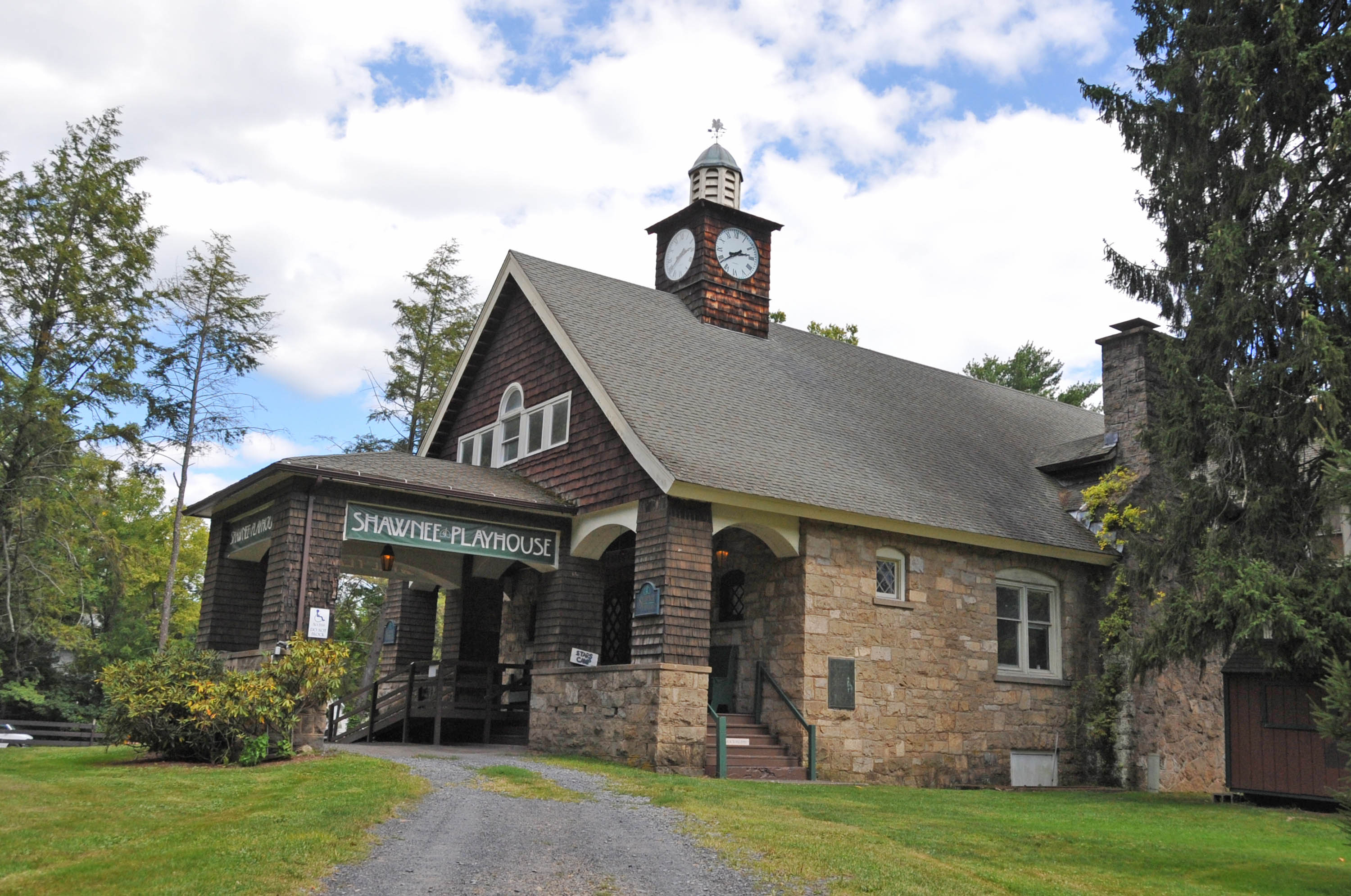 AKA SHAWNEE PLAYHOUSE. THE ORIGINAL WAS BUILT IN 1904 BUT WAS DEMOLISHED FOLLOWING AN ARSON FIRE IN 1985. HOWEVER THROUGH THE WORK AND DONATIONS OF NUMEROUS ORGANIZATIONS IT WAS FAITHFULLY REBUILT EXACTLY AS IT WAS ORIGINALLY AND NOW OPERATES AGAIN AS A THEATER.